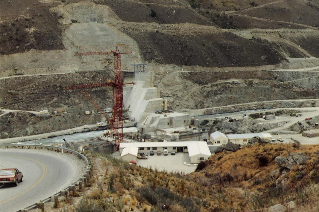 Clyde Dam in New Zealand under construction circa 1986, scan of photo taken by self